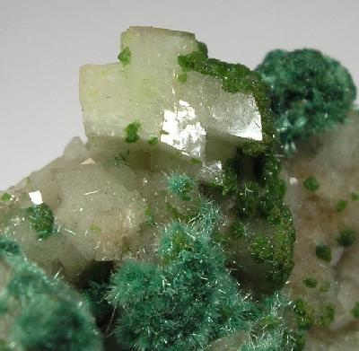 Brochantite, Calcite, Conichalcite Locality: Tsumeb, Otjikoto (Oshikoto) Region, Namibia (Locality at ) Size: thumbnail, 3.1 x 2.8 x 1.3 cm Brochantite & Conichalcite on Calcite This specimen is small in size but large in stature. The white Calcite matrix is liberally coated sharp acicular balls of light green Brochantite along with smaller spherical acicular Conichalcite that ranges from light to olive green. As a bonus, there is a tiny and gemmy dioptase crystal tucked in a small vug in the base. Such a an excellent specimen, no matter how you size it. Purchased from the Zweibels in 1976